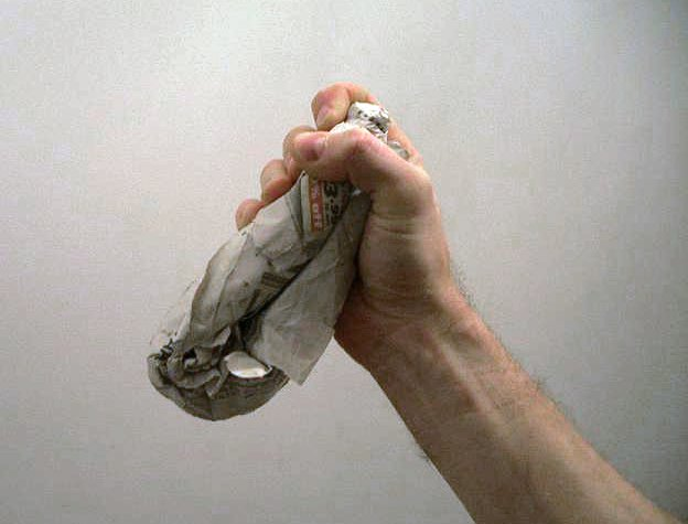 The way to hold a Millwall brick